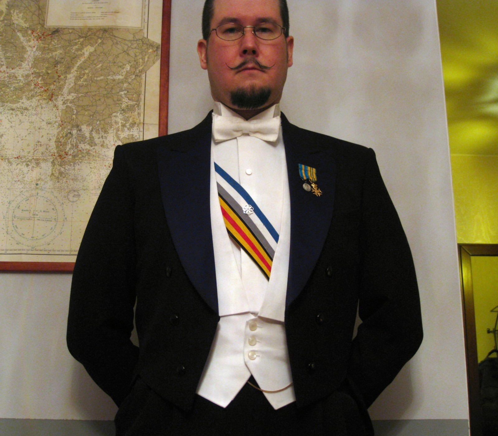 Tailcoat suit with academic ribbons (couleur) and miniature decorations.